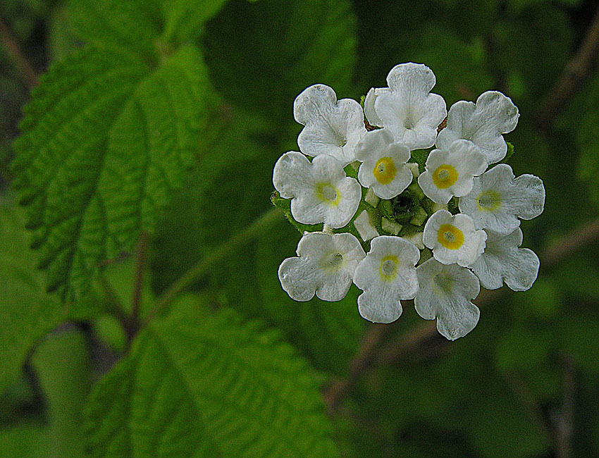 Native from Mexico to Costa Rica. Photo from Xochicalco, Mexico, likely a garden escapee. In context at